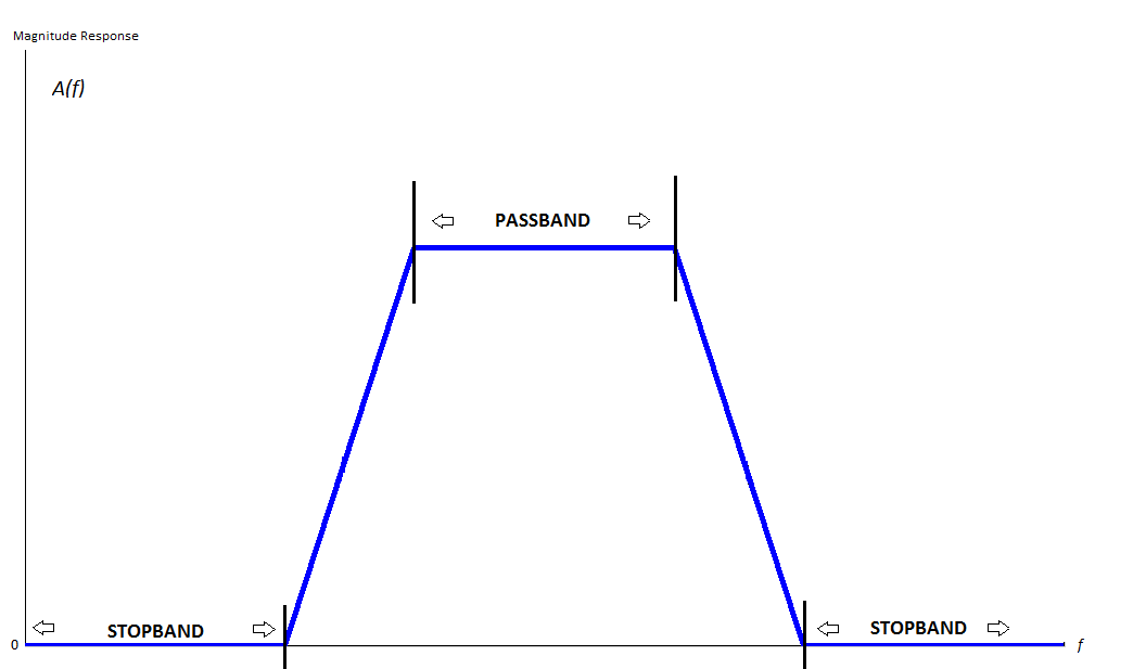 The frequency response of an example band-pass filter. The frequencies between the passband and stopbands are transition bands.